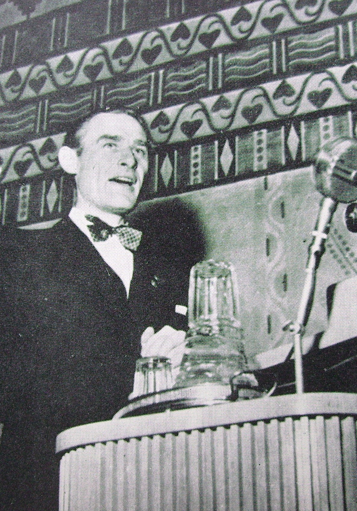 Picture of Ebbe Ohlsson, Swedish politician